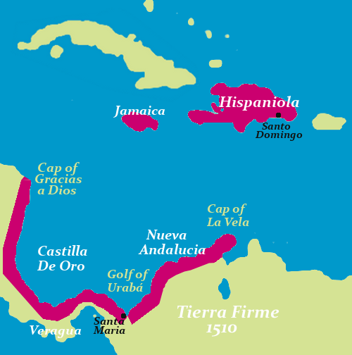 1510 - Crown of Castile dominions